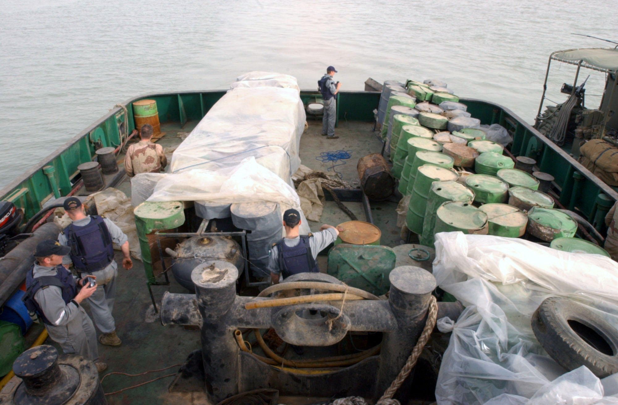 The Arabian Gulf (Mar. 21, 2003) -- Coalition Navy Explosive Ordnance Disposal (EOD) team members inspect camouflaged mines hidden inside oil barrels on the deck of an Iraqi shipping barge. The shipping barge was intercepted and inspected by Coalition Maritime Interdiction Operation (MIO) and Vessel Board Search and Seizure (VBSS) teams from the patrol craft USS Chinook (PC 9) in the early hours of Operation Iraqi Freedom. Operation Iraqi Freedom is the multi-national coalition effort to liberate the Iraqi people, eliminate Iraq’s weapons of mass destruction and end the regime of Saddam Hussein. U.S. Navy photo by Photographer’s Mate 2nd Class Richard Moore. (RELEASED)